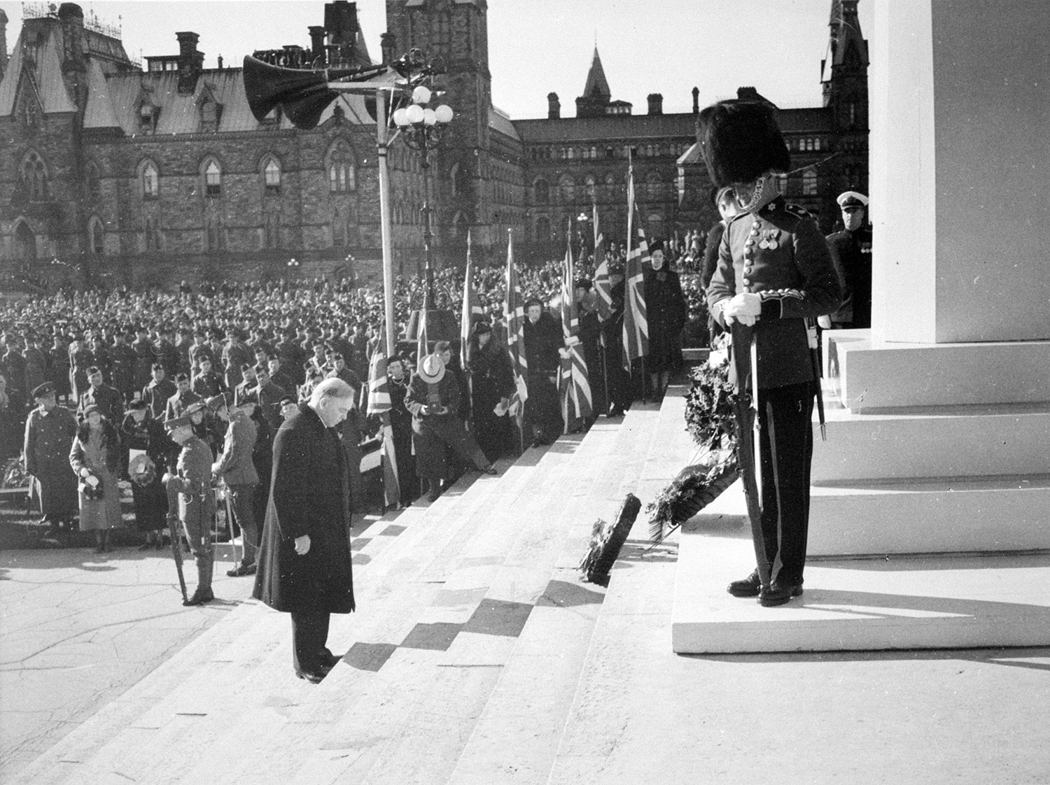 William Lyon Mackenzie King laying a wreath on Remembrance day, 1937. While the wreath is being laid at the future location of the National War Memorial (which was installed at this spot in October 1938), the memorials seen in this photograph appears to be a temporary monument of some kind.